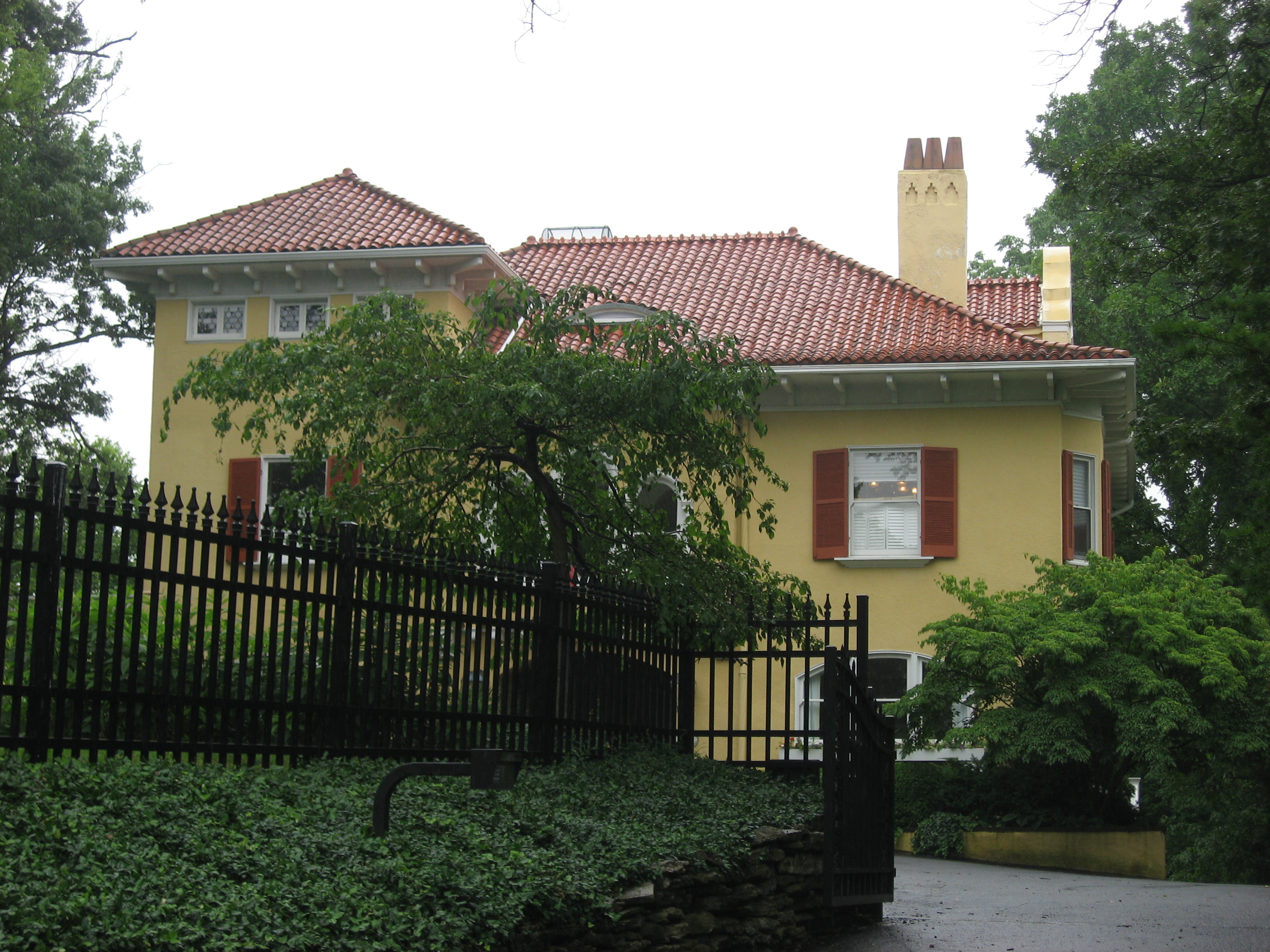 Front of the George Hoadley Jr. House, located at 2337 Grandin Road in Cincinnati, Ohio, United States. Built in 1900, it is listed on the National Register of Historic Places.